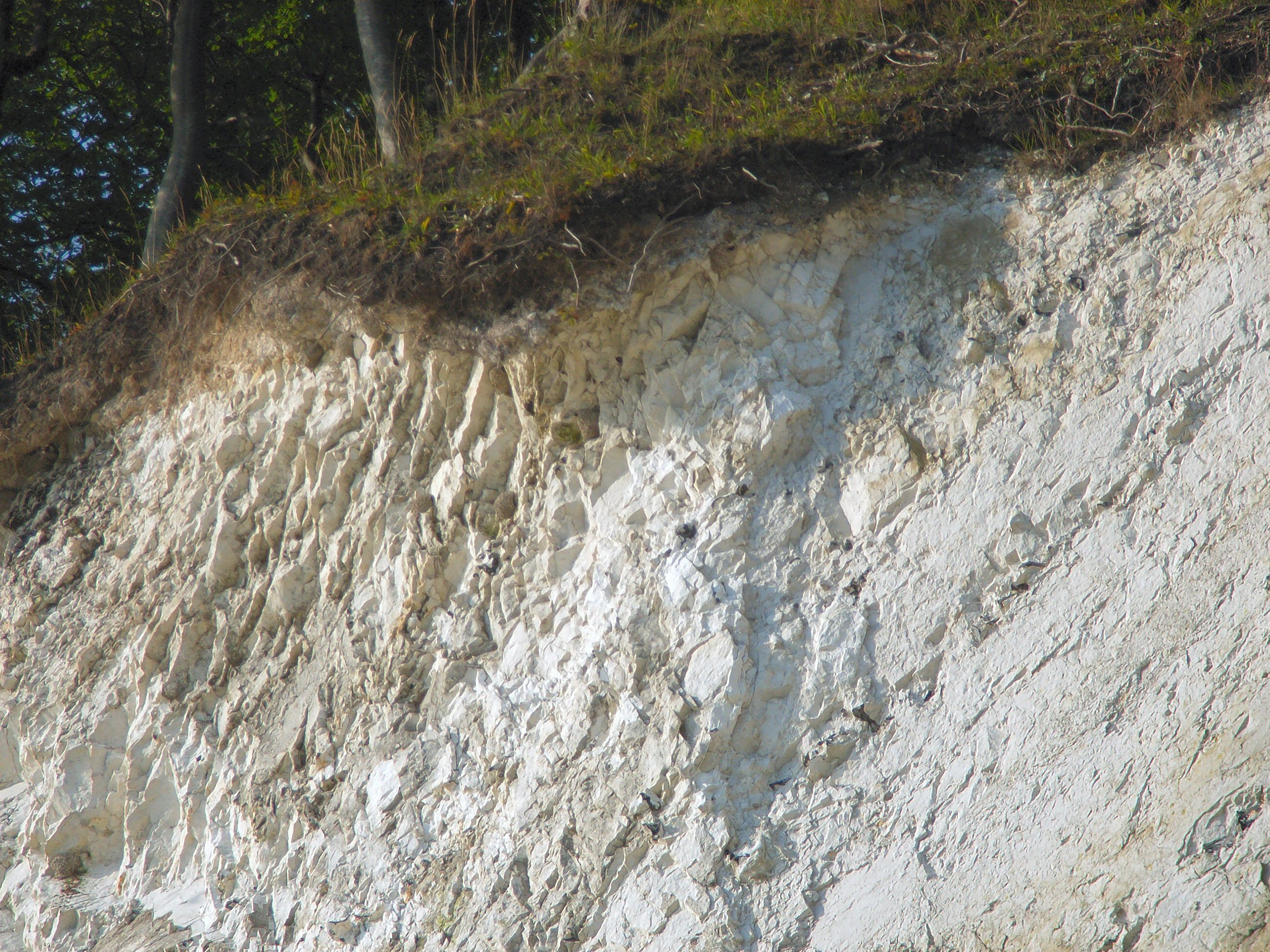 Square edge at the coastline in the Jasmund National Park on island Rügen